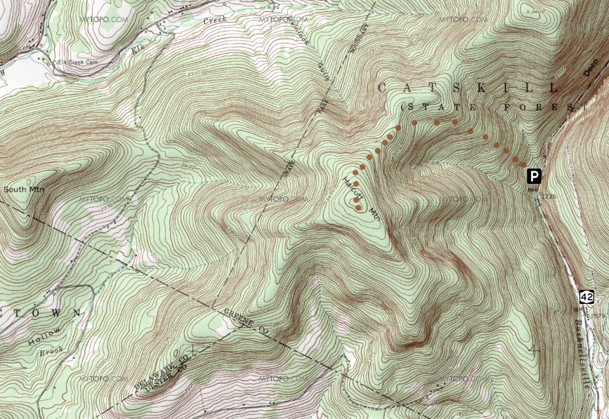 Map of Halcott Mountain in the Catskills of the U.S. state of New York showing most common route used to climb it.